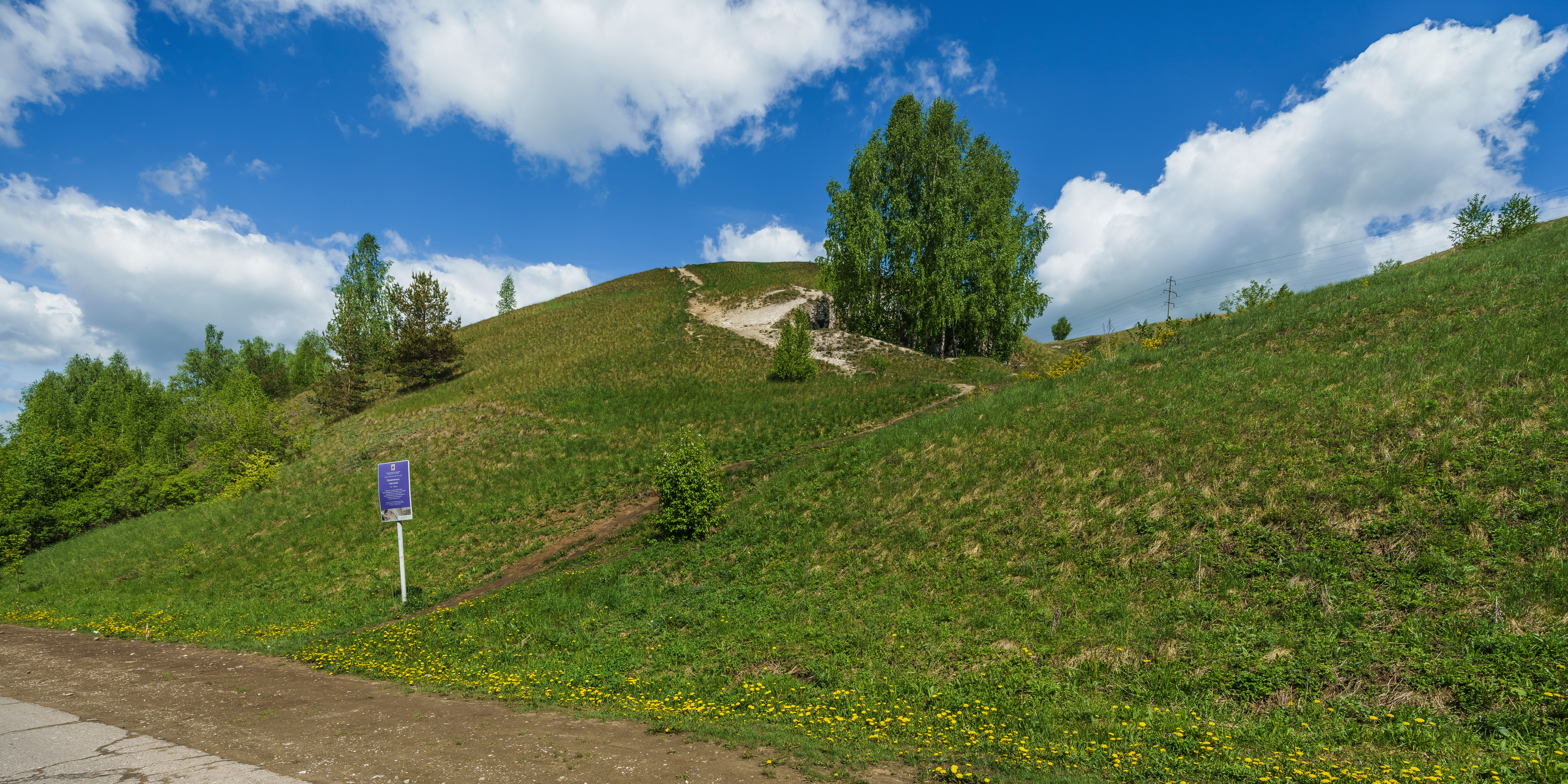 Archaeological site «Yermak Hillfort» in Kungur, Perm Krai, Russia